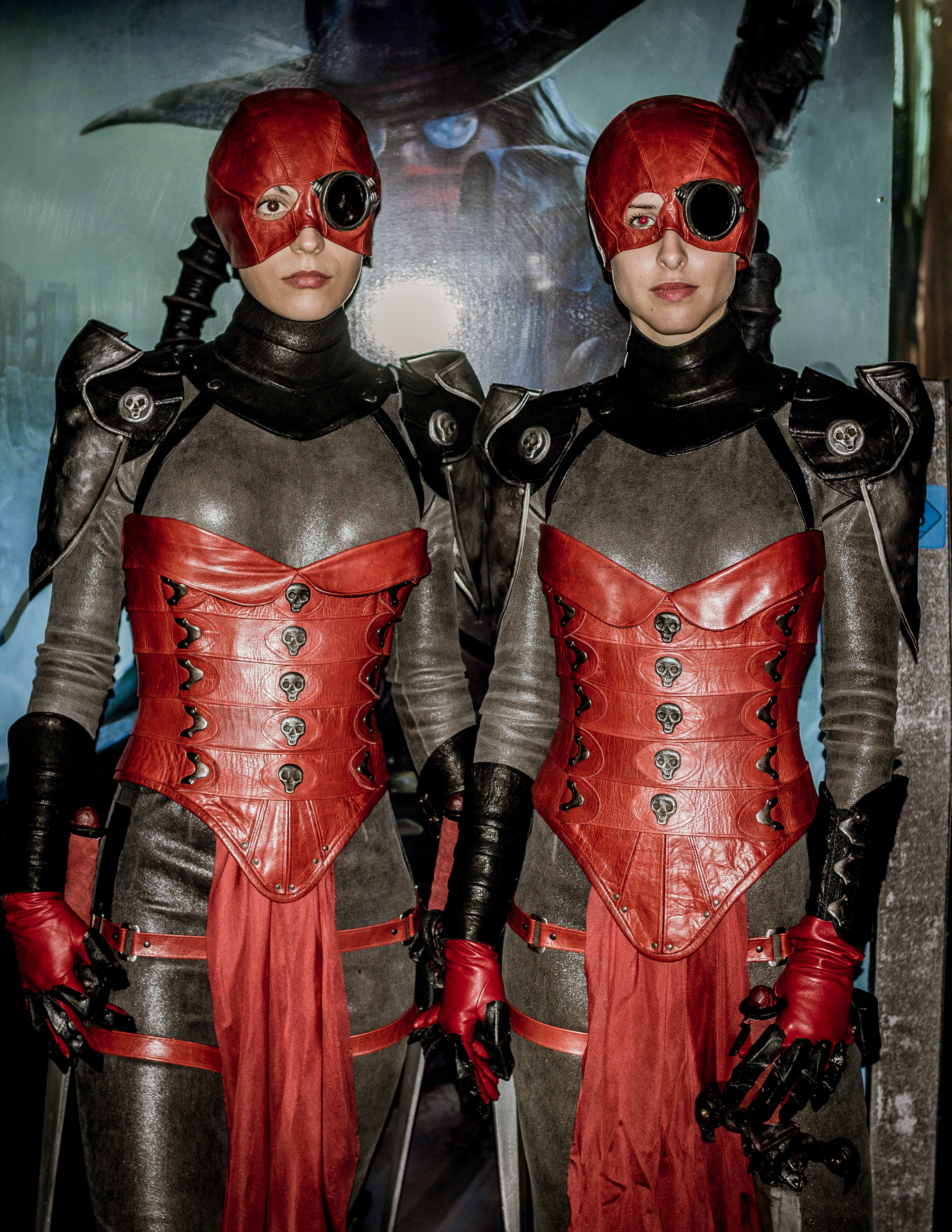 WH40K at Gamescom 2015